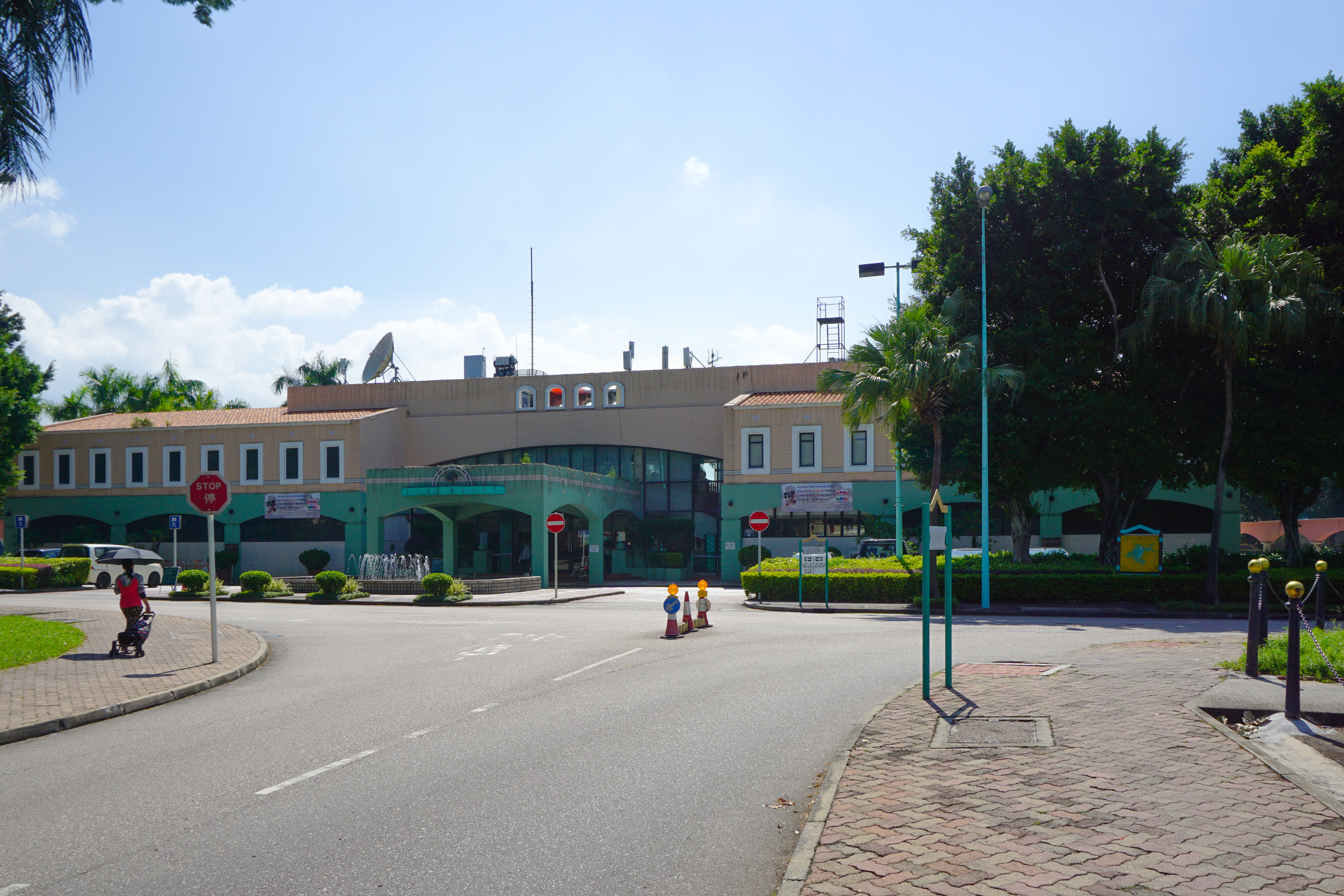 Club Oasis in Wo Shang Wai, Hong Kong.